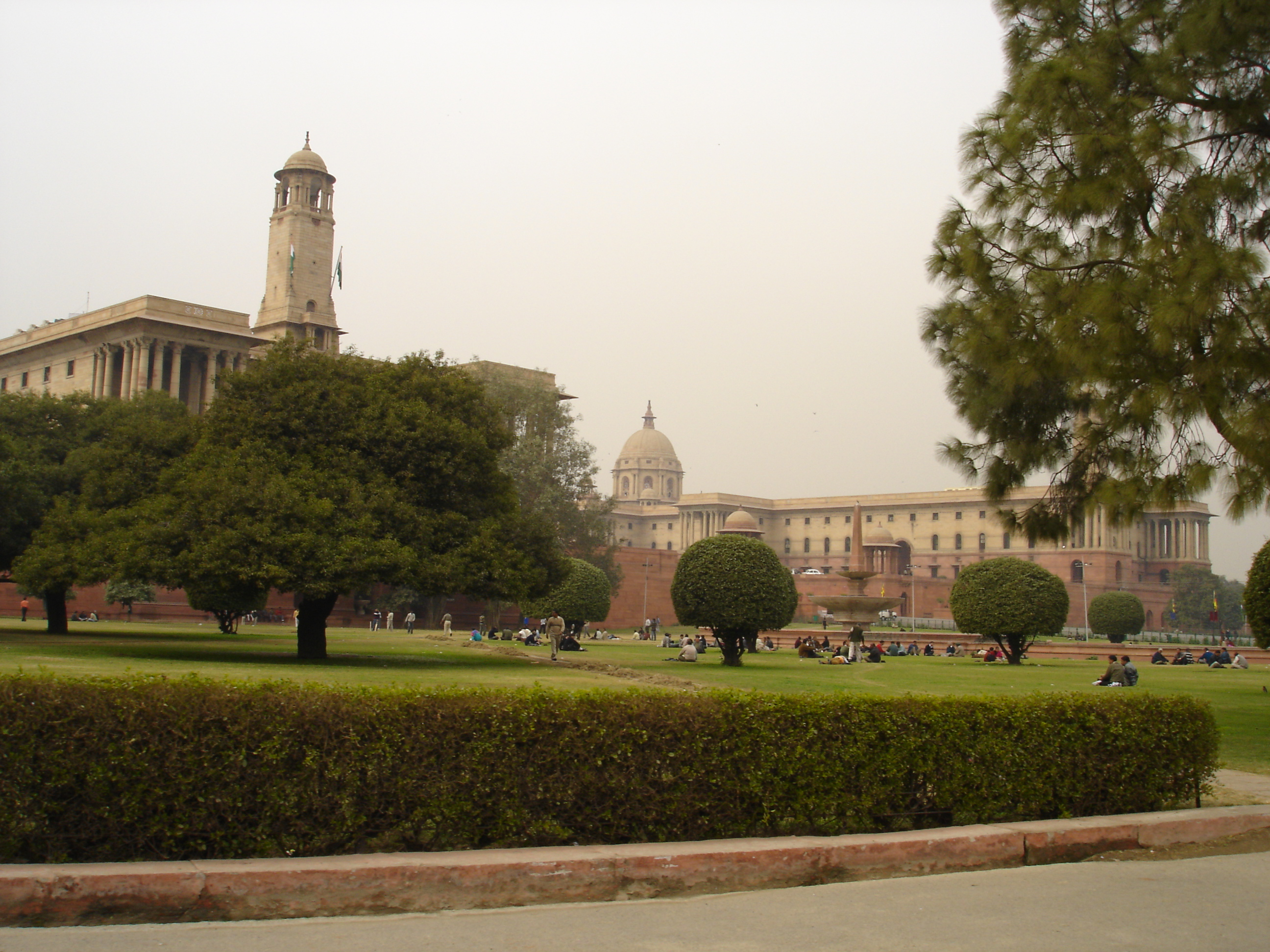 The Vijay Chowk?